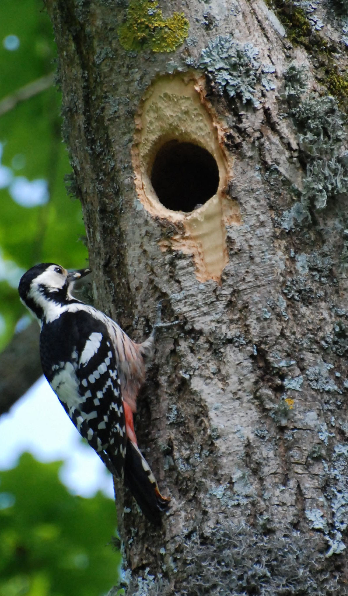 White-backed Woodpeckers (Dendrocopos leucotos): female at nest, Kloostri, Estonia.